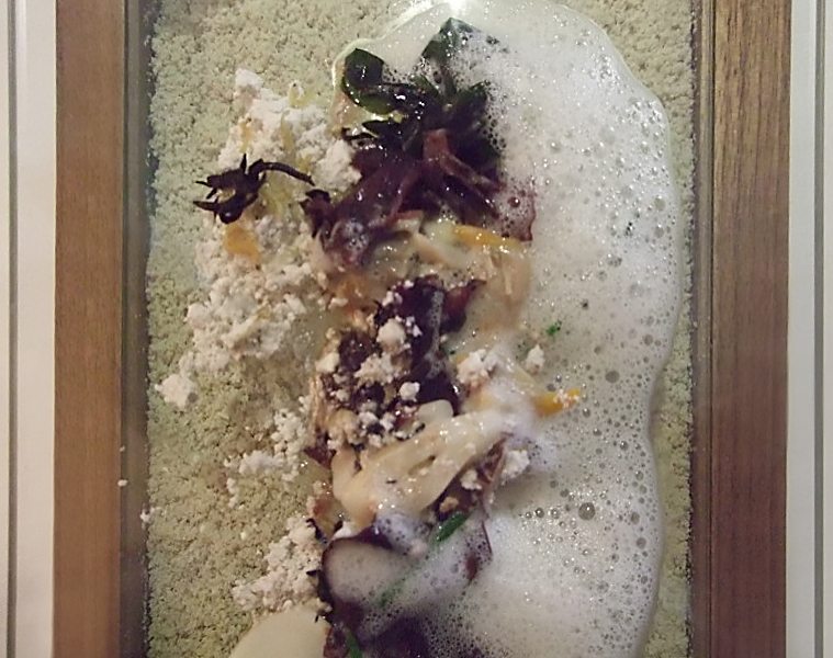 Seaweed oysters foam and semolina sand all eaten to a soundtrack of seaside noise and washed down with a glass of sake.